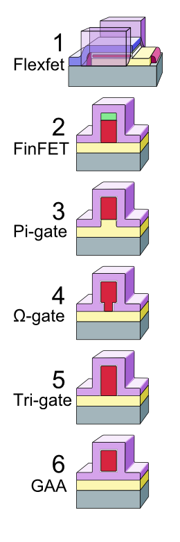 Multigate models 2